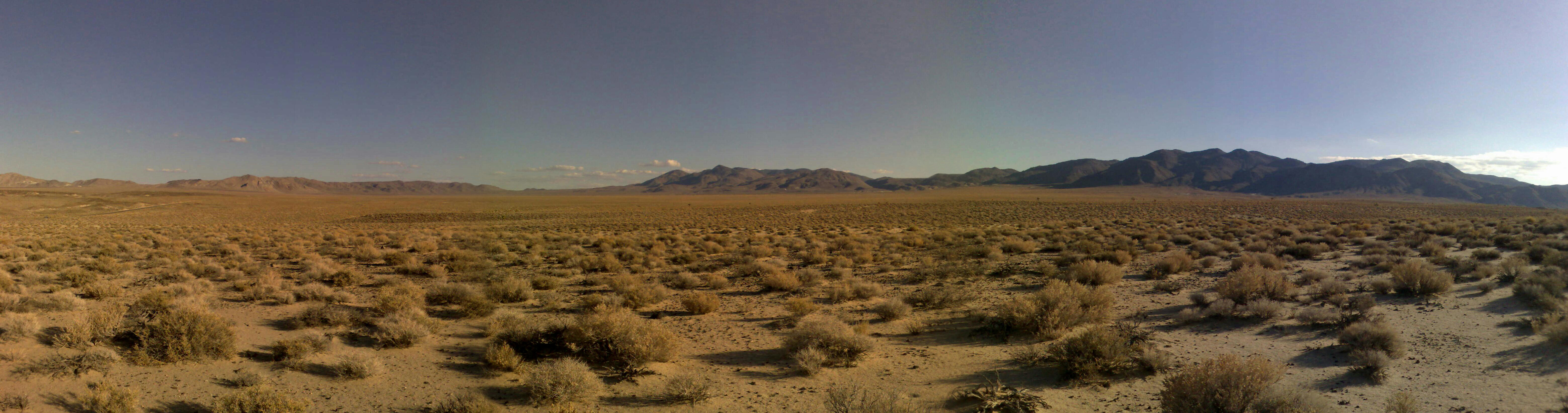 Taken just south of Highway 95 in the Mojave Desert.